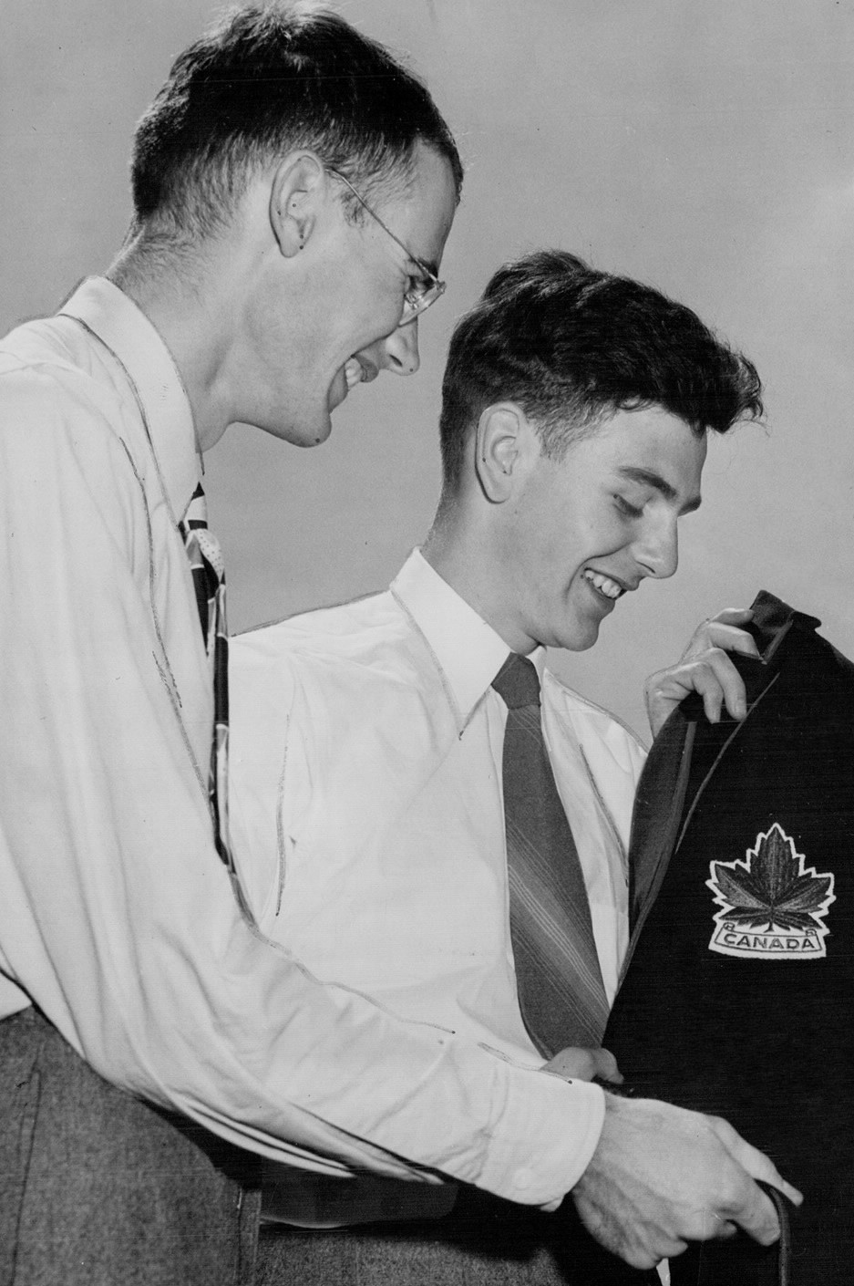 Toronto men bound for Olympics seen admiring a Canadian blazer; are from left: Gerry Fairhead; Dick Townsend. They will compete in sailing races when they reach England